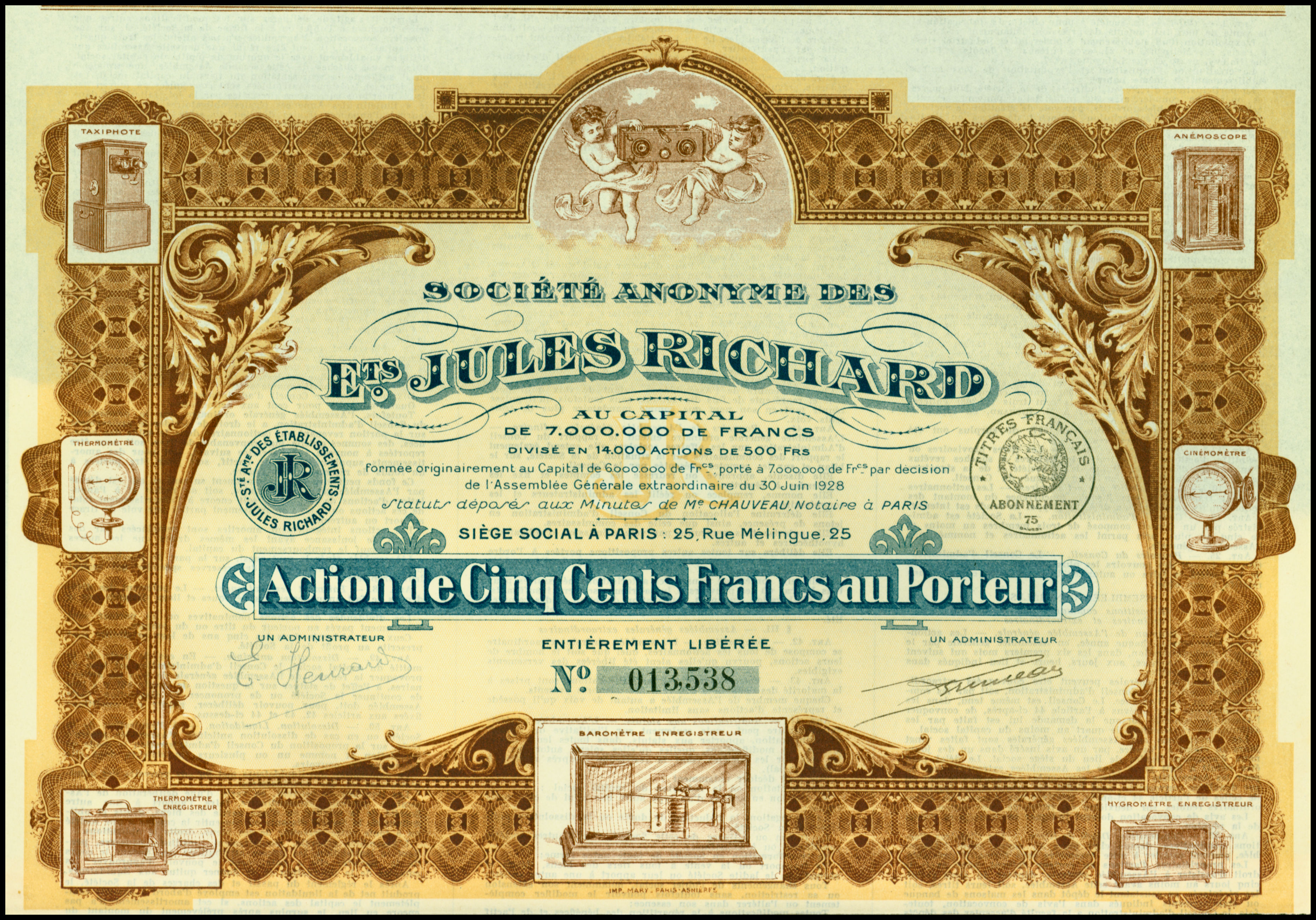 Share of the SA des Ets. Jules Richard, issued 30. June 1928